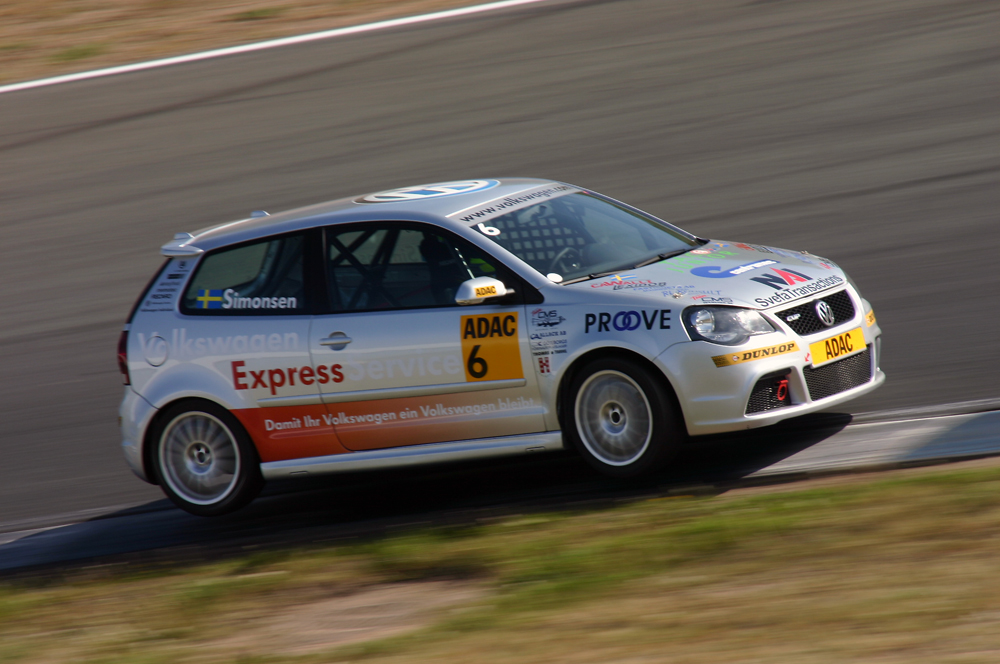 Simonsen in race Polo. Probably his name is Andreas Simonsen